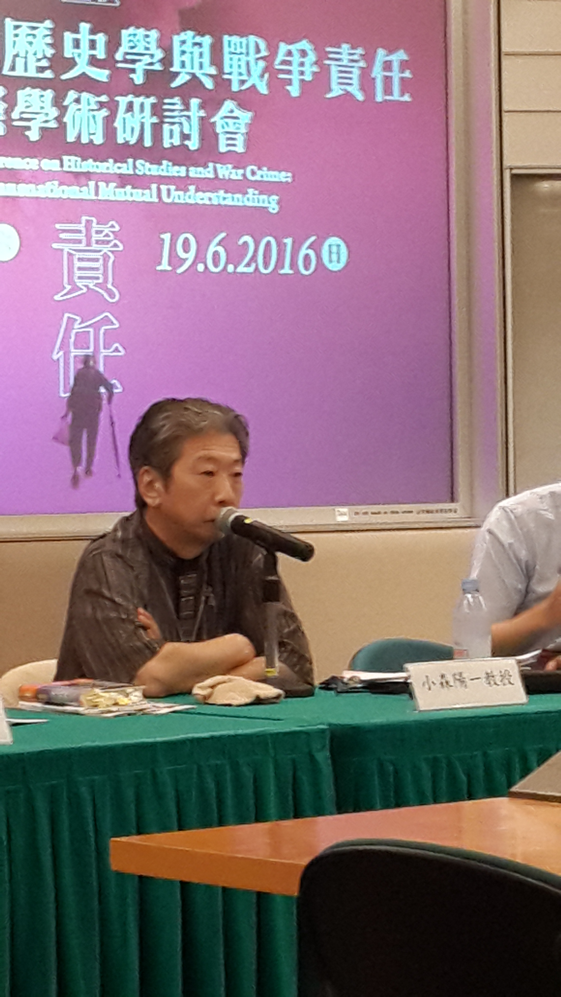 Yōichi Komori at a conference held at the City University of Hong Kong